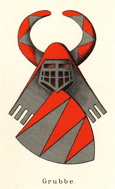 Coat of arms of the Grubbe family